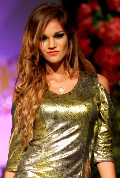 Giselle Patrón Brunet, french-peruvian model at Mother's Day "Expo-mujer". May 2012, Lima.